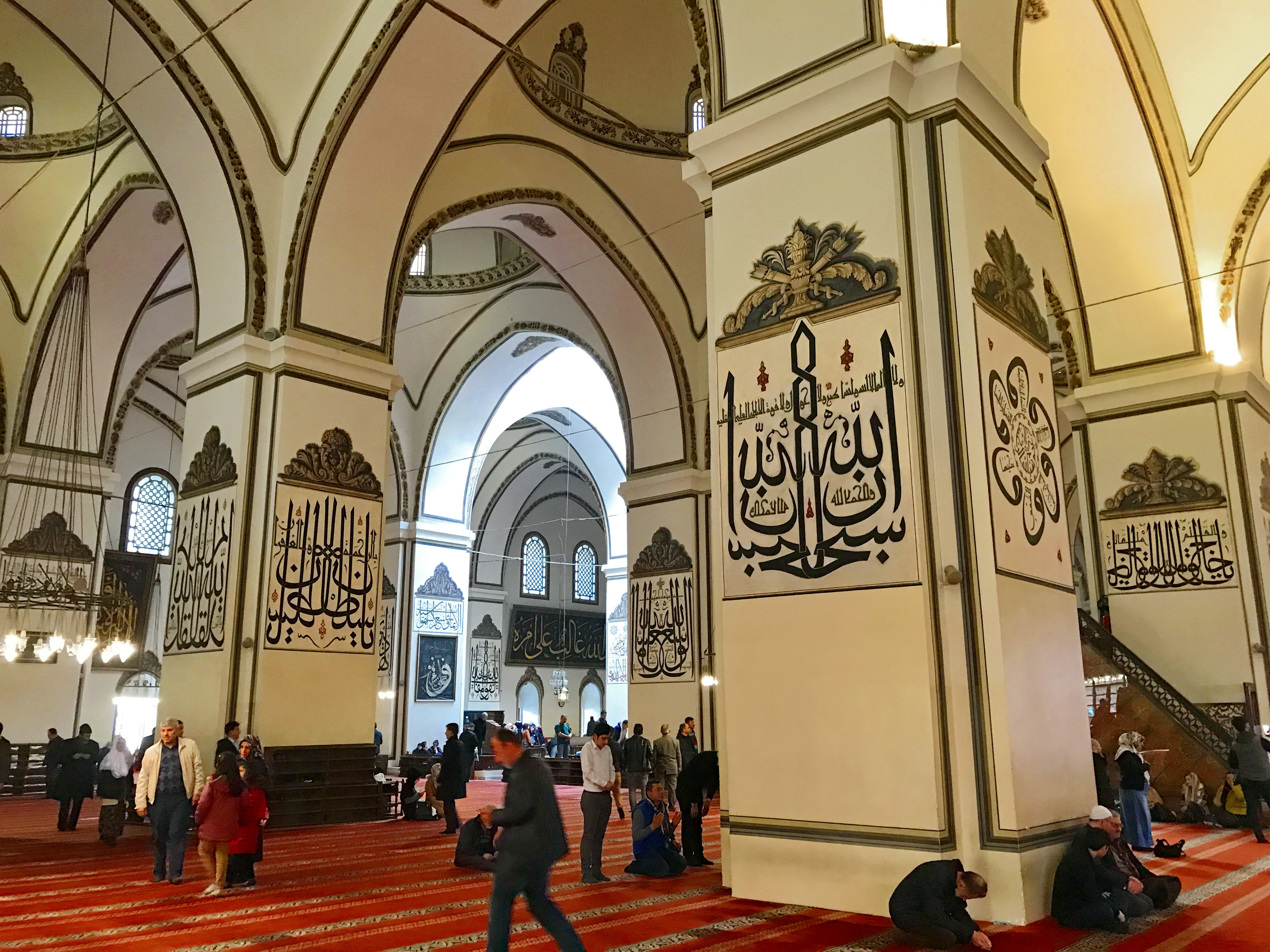 "Ulu Cami" (Grand Mosque of Bursa), Turkey. Ulu Cami is built in the Seljuk style, it was ordered by the Ottoman Sultan Bayezid I and built between 1396 and 1399. The mosque has 20 domes and 2 minarets.